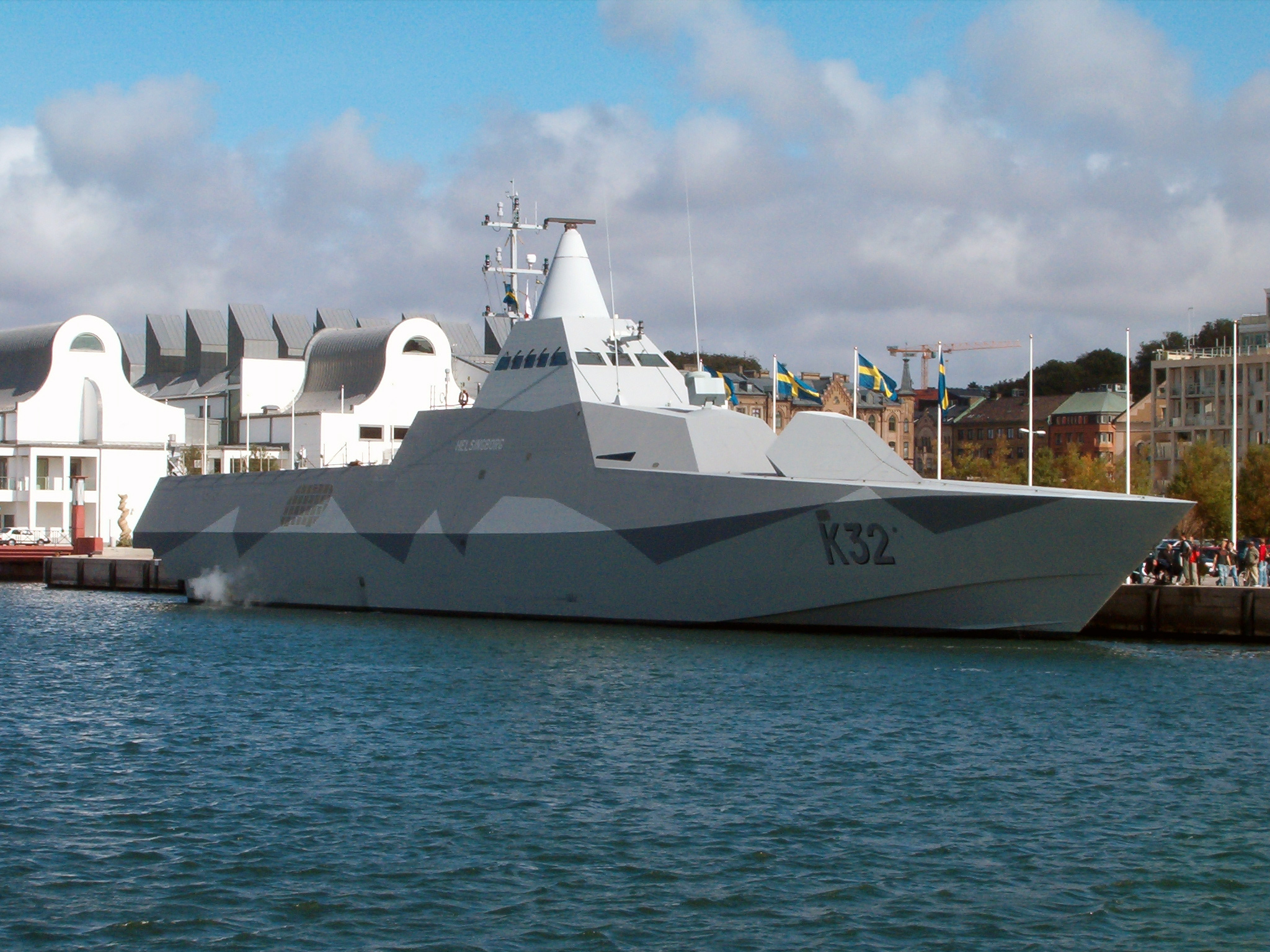 The Swedish navy's stealth corvette HMS Helsingborg at a visit in Helsingborg.